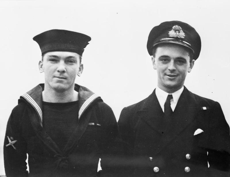 Photograph of Leading Seaman James Joseph Magennis VC (left) and Lieutenant Ian Edwards Fraser, VC, DSC, RNR.